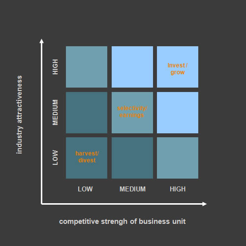 McKinsey matrix as described in McKinsey Quarterly